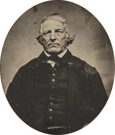 Entire portrait of Samuel Wilson.